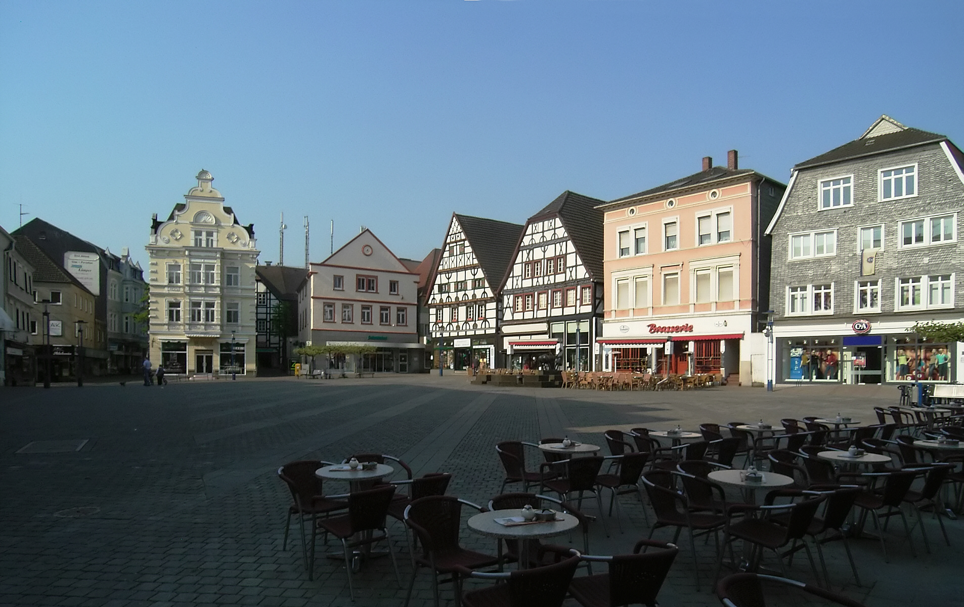 The old market square of Unna